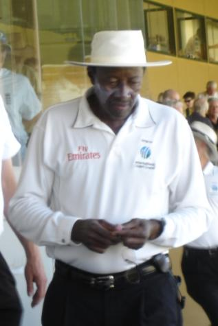 Crop of a photo taken by on Day 5 of the Adelaide Test match in the en:2006-07 Ashes series (December 5, en:2006). GFDL.